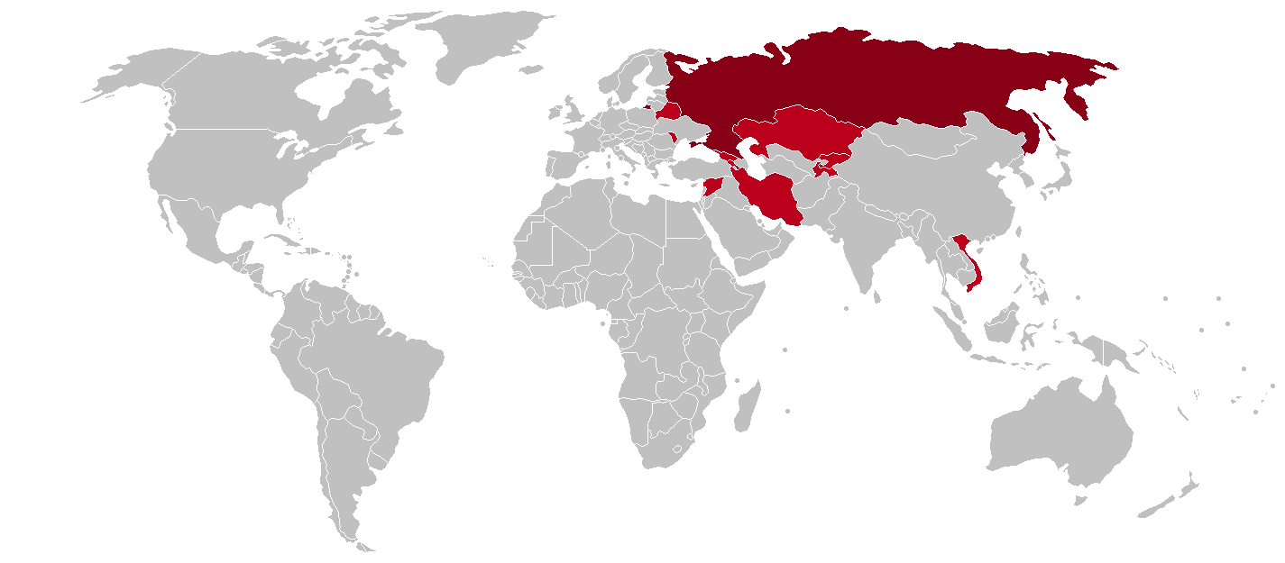 Russian military bases aboard: Territory of the Russian Federation, including Crimea Countries with Russian military bases